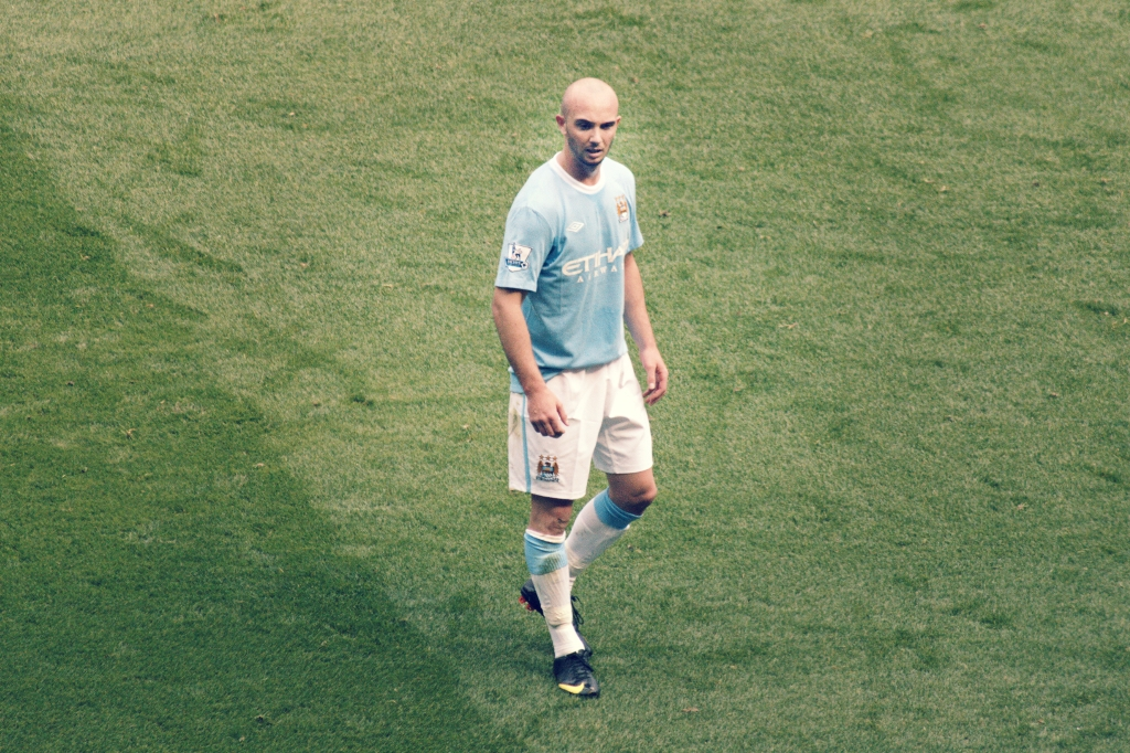 Stephen Ireland of Manchester City F.C. in 2009.